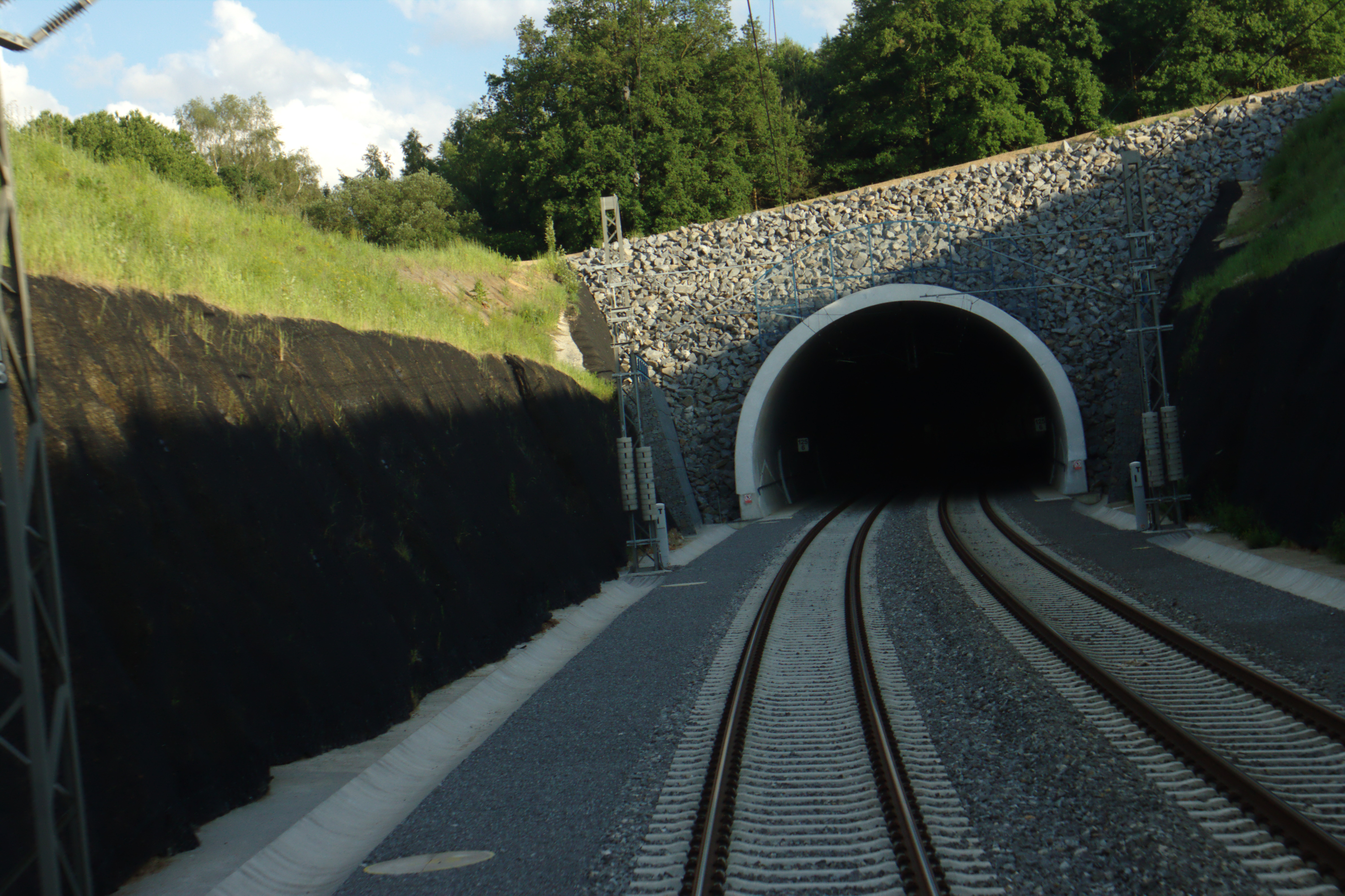 Train track no. 220 after renovation. This is the section Olbramovice-Benešov (Northern portal of Opřetice Tunnel), Central Bohemian Region, CZ